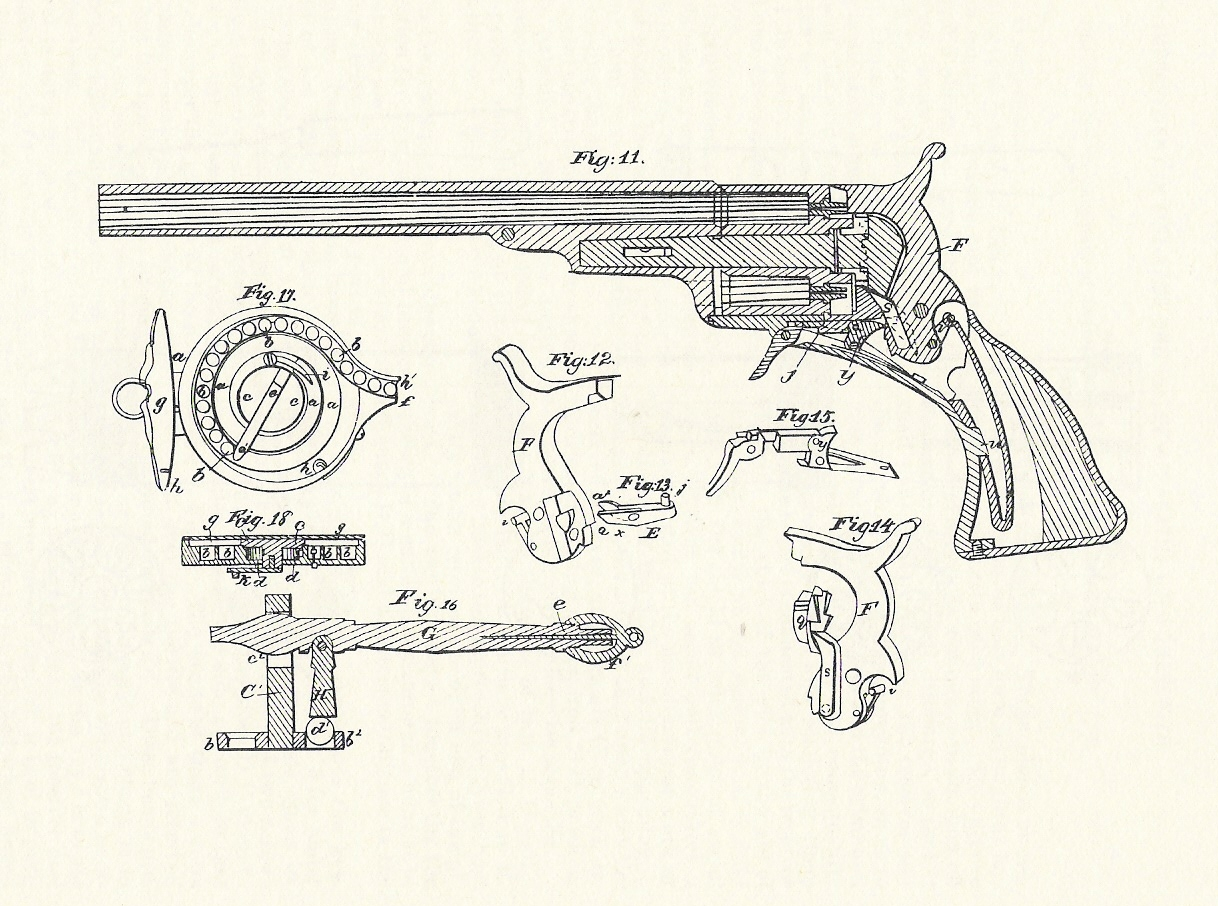 Colt Paterson "Holster Model" Patent Aug. 29. 1839